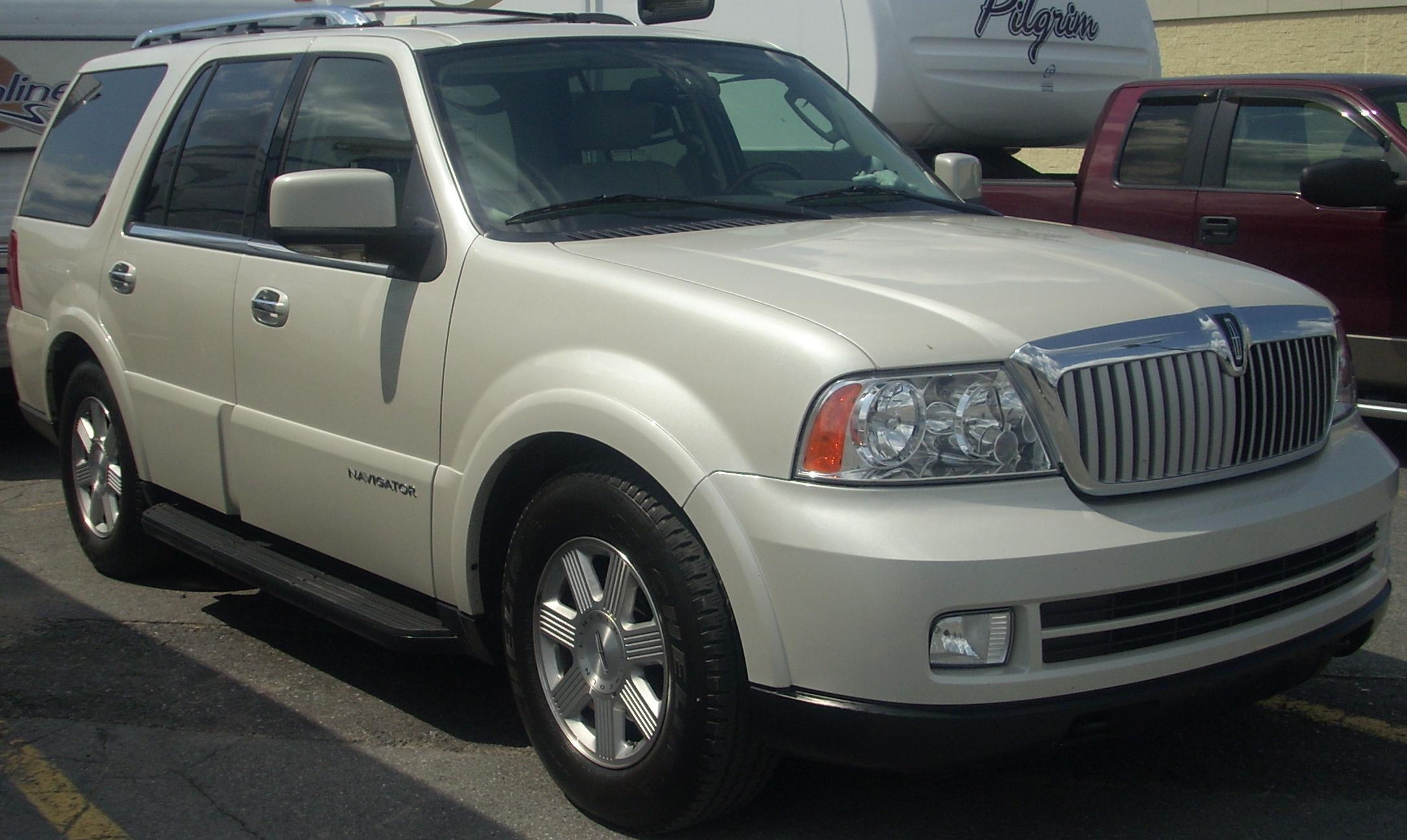 2005-2006 Lincoln Navigator photographed in Plattsburgh, New York, USA.